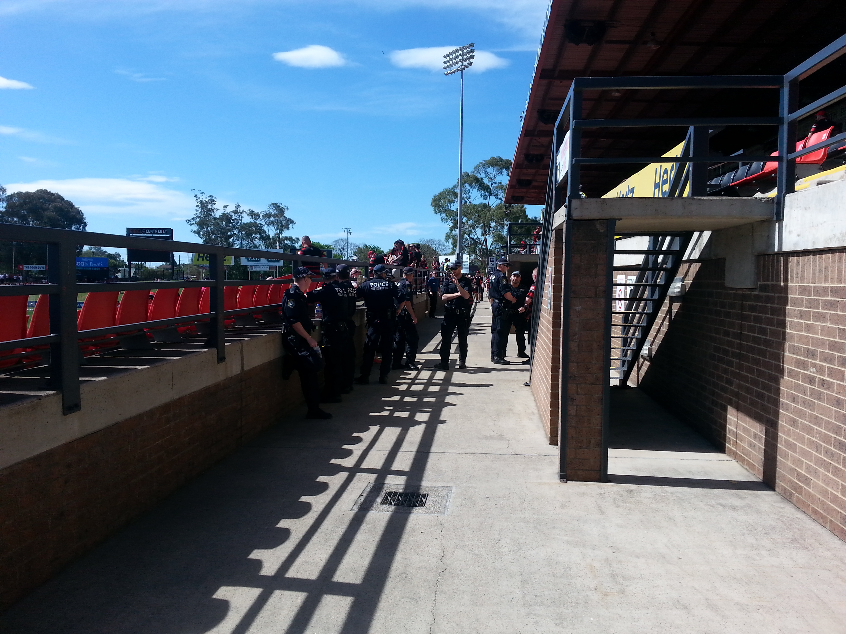 A photo of a squad of Public Order & Riot Squad officers at an A-League Pre-Season Football Match